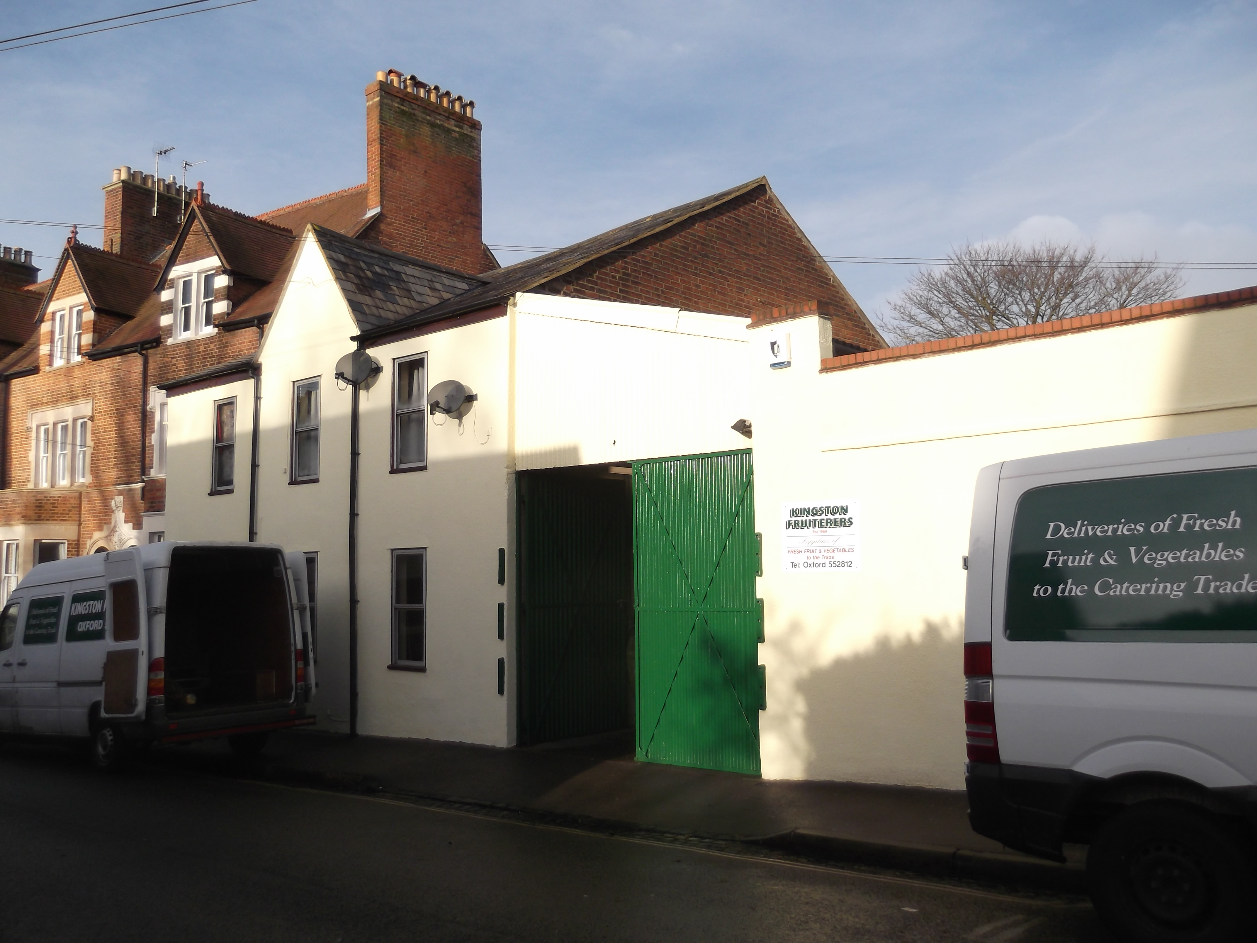 Kingston Fruiterers on the south side of Longworth Road, Oxford, England.